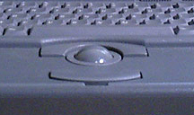 trackball (boule de commande) du Macintosh PowerBook 145 de Apple (recadrage sous Photoshop®)